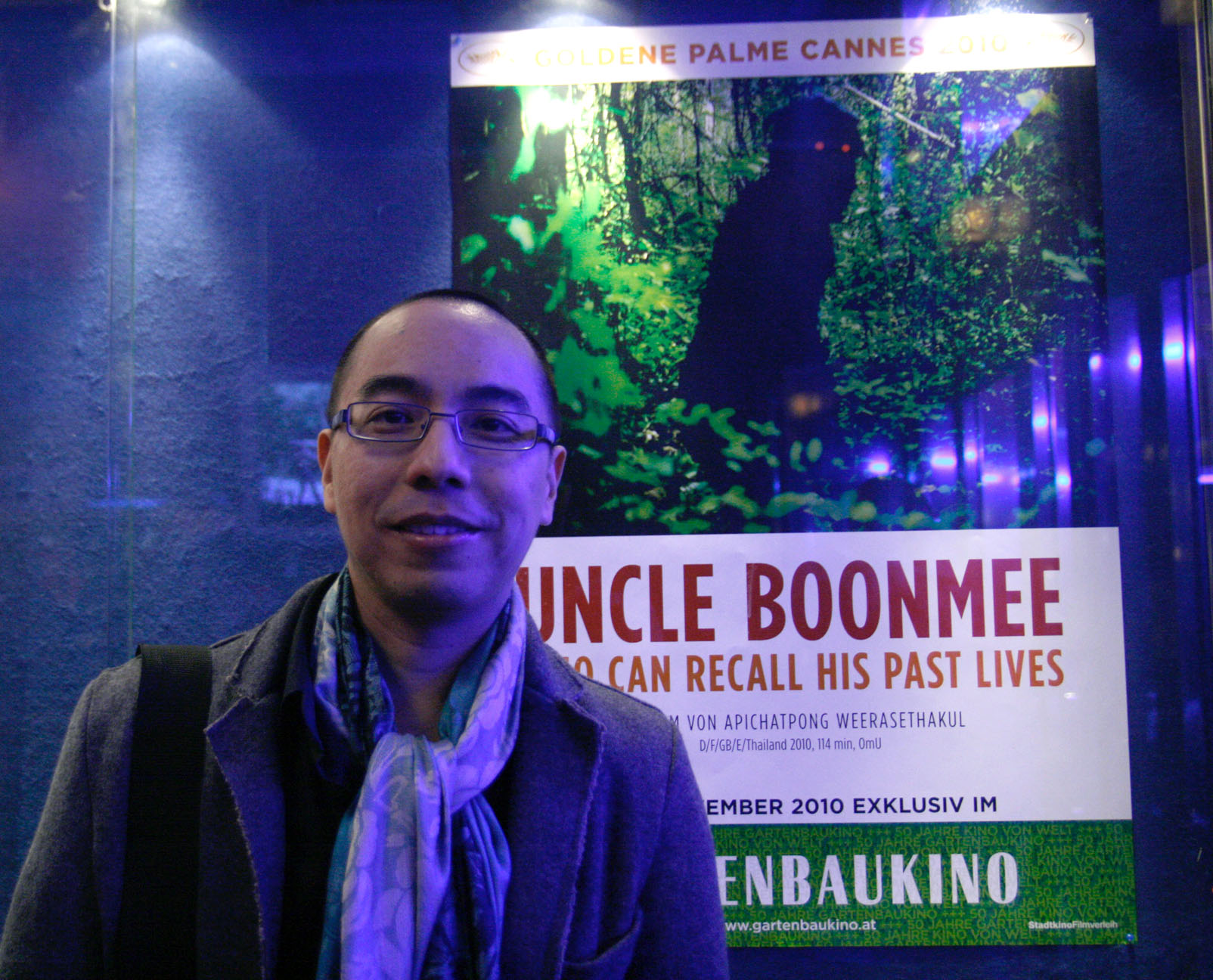 Film director Apichatpong Weerasethakul at the opening of the Vienna International Film Festival 2010.